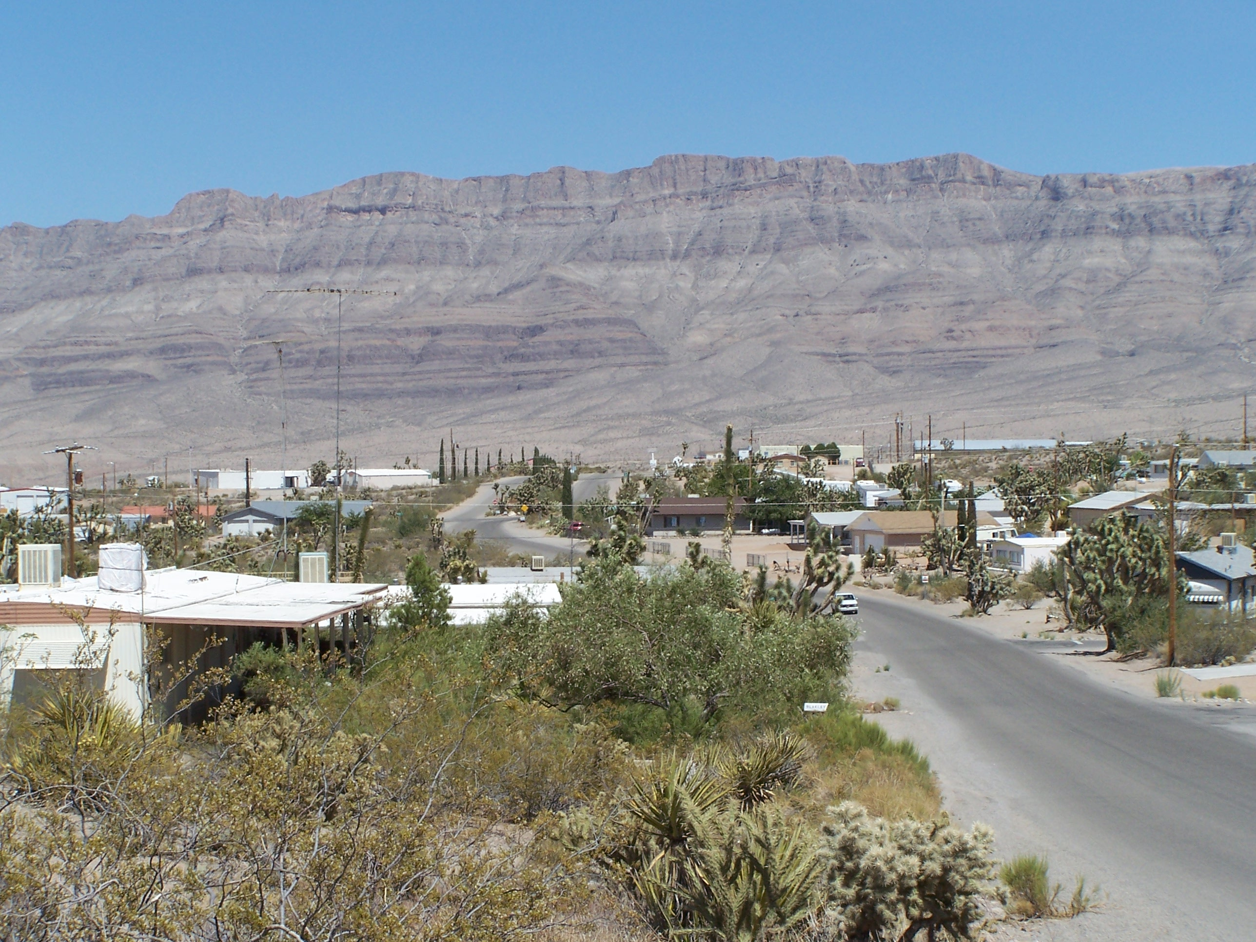 Photograph of Meadview, Arizona